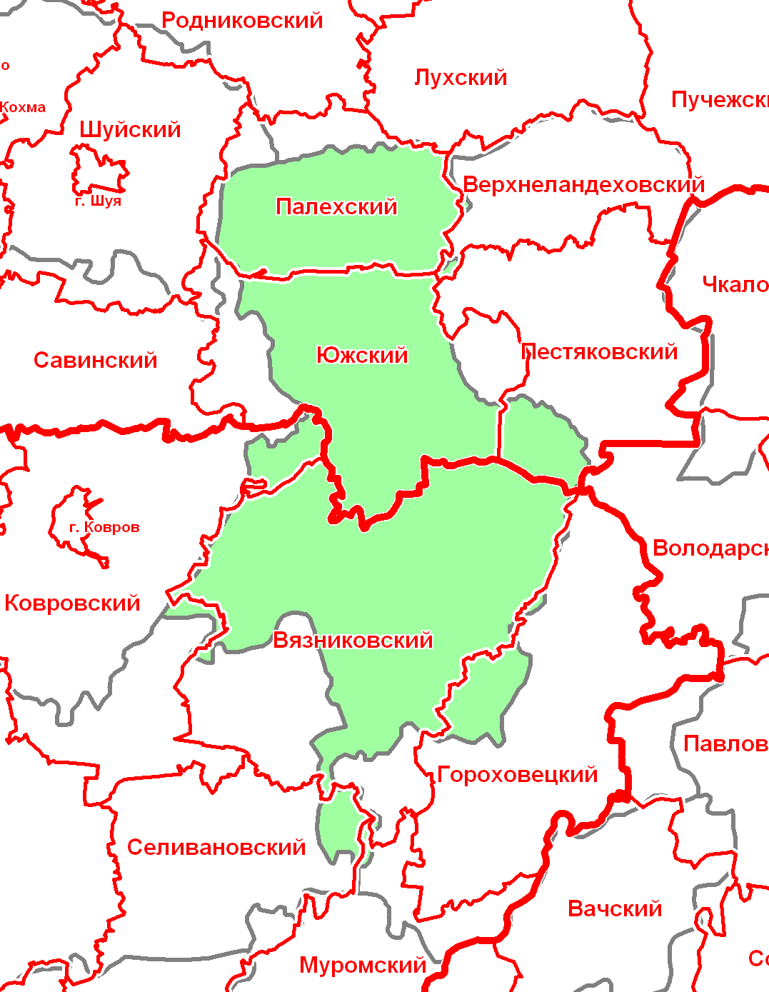 Maps of Vladimir Governorate